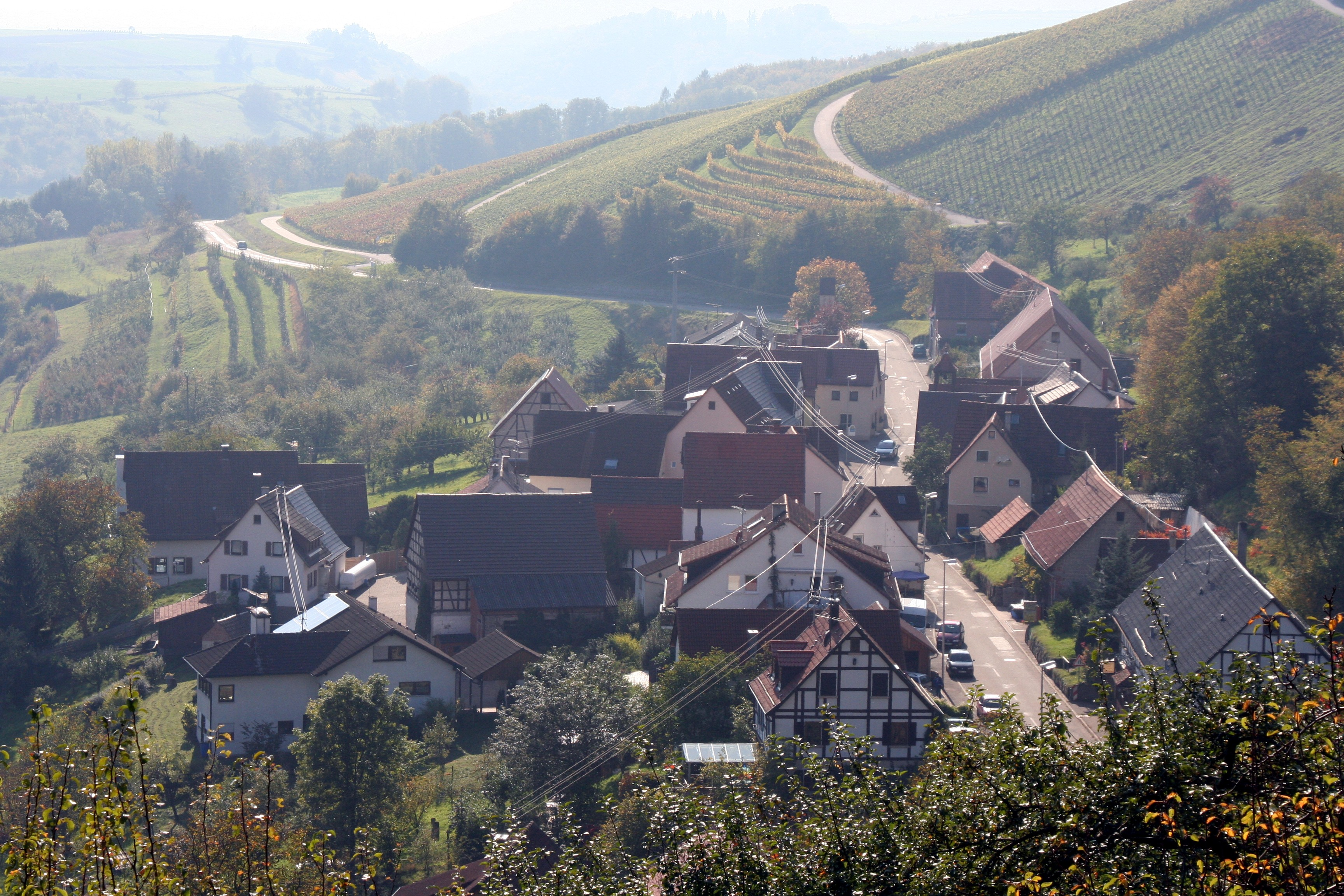 Etzlenswenden, a hamlet belonging to Beilstein, photographed from the East